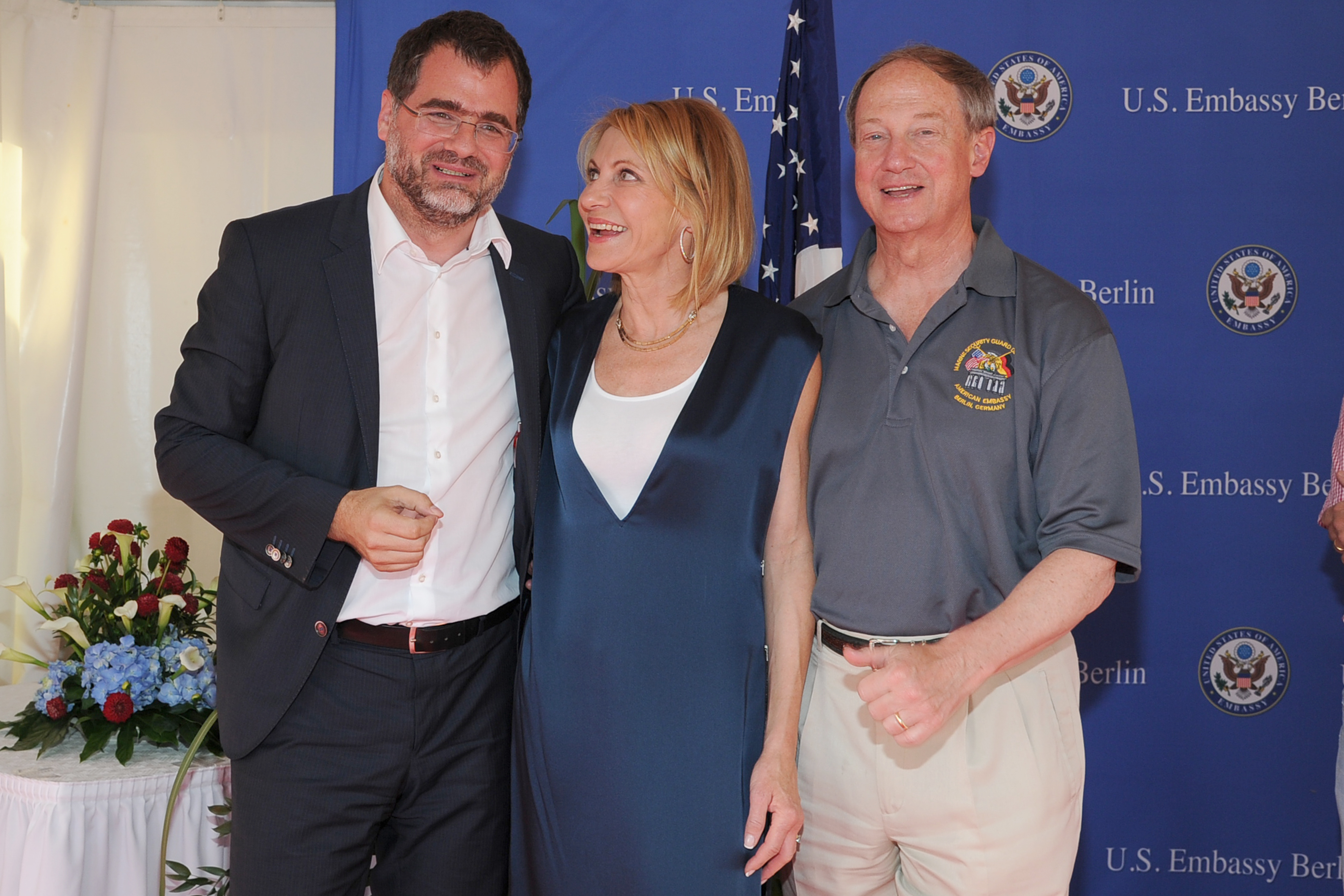 L to R: Wolfgang Schmidt, Kimberly Emerson, and John B. Emerson, Independence Day in Berlin, July 1, 2016